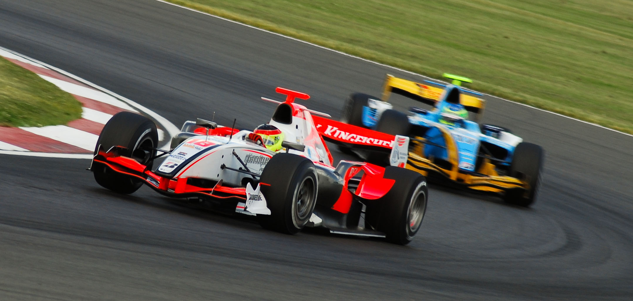 Roldán Rodríguez (FMS International) and Alberto Valerio (Durango) at the Silverstone round of the 2008 GP2 Series season.